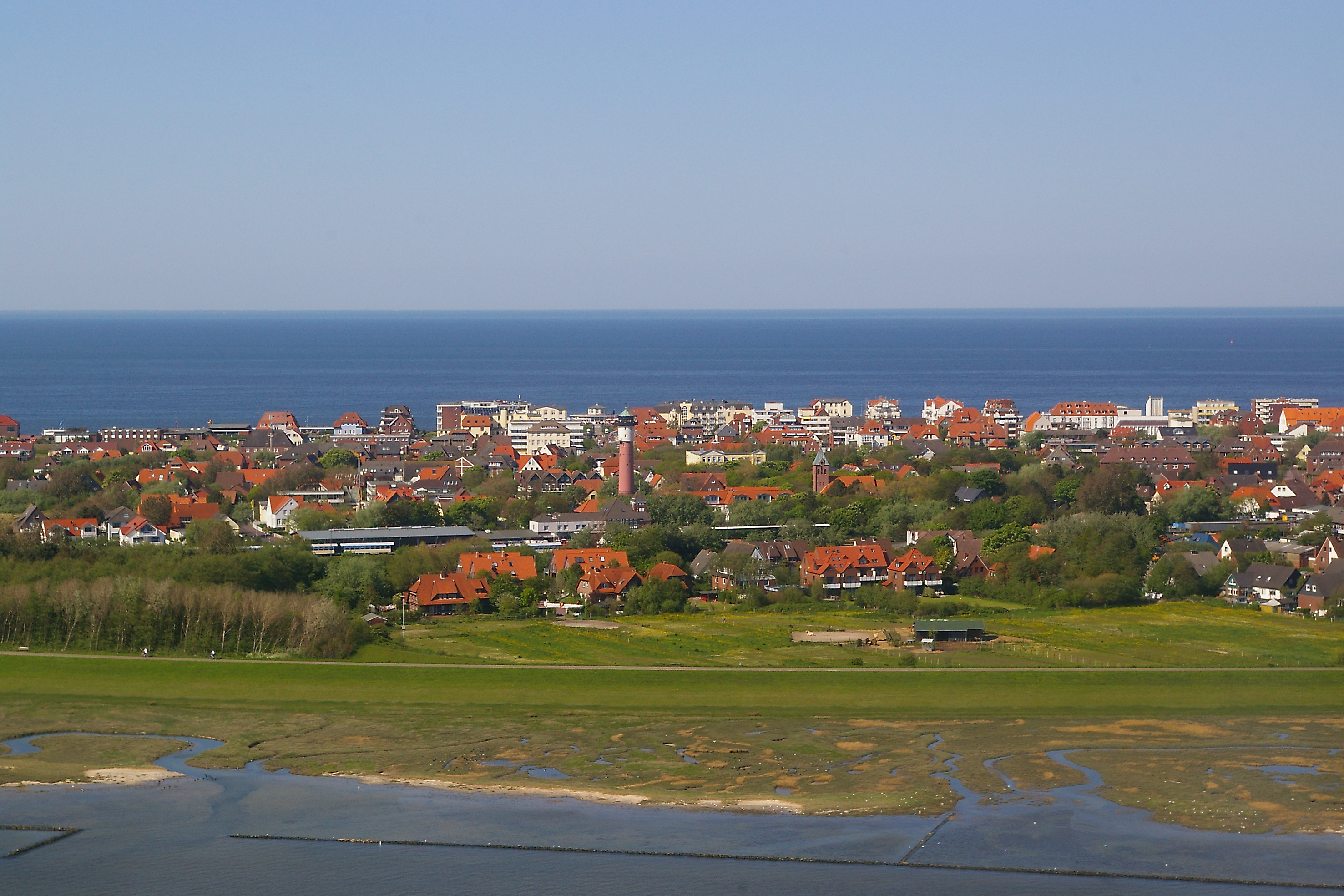 View of central Wangerooge from the air, approaching the island from the south.